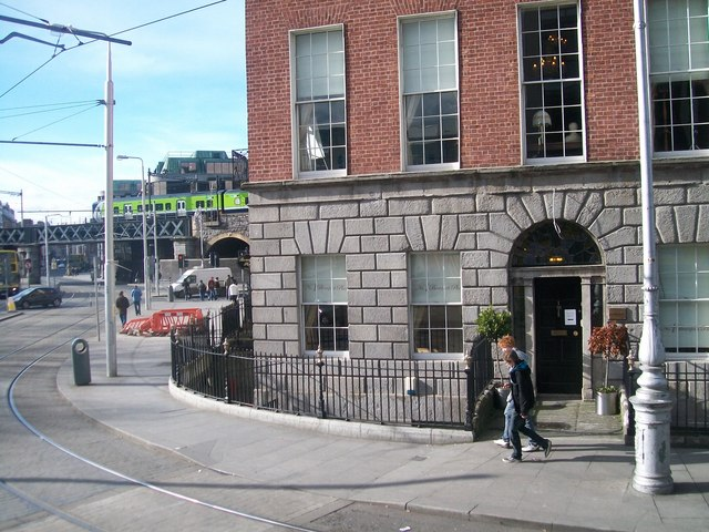 The corner of Store Street and Beresford Place The railway bridge which extends southwards across the Liffey links Connelly and Pearse Street Stations.